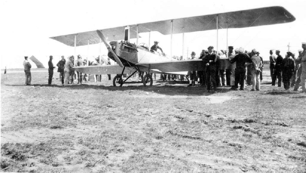 Carrying passengers at Rockwell Field. Major Arnold gave Ryan permission to carry passengers at $5 per head off a military airfield because Ryan proposed giving 20 percent to Army Relief. Occasion was Army day and thousands visited opened house. Ryan used 3 planes and 3 pilots. Photo from the "Early Days" of Ryan Aeronautical Repository: San Diego Air and Space Museum Archive